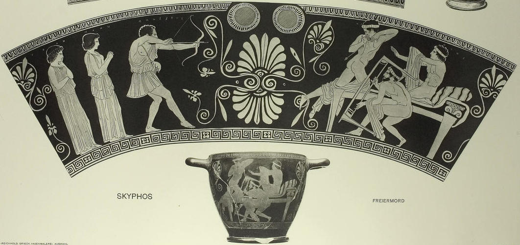 Scanned B&W Images. Both vessels are fully scanned and include an Attic red-figure skyphos ca. 440 BCE from Tarquinia depicting Odysseus slaying the suitors of Penelope and an Attic red-figured amphora from Vulci, 440 BCE, depicting Odysseus trying to hide his nakedness in front of Athena and Nausicaa after washing up on the shore of Skheria. This image is a direct download from Furtwängler A color image of the actual skyphos is available at: A color image of the actual amphora with Odysseus, Athena,and Nausicaa is at